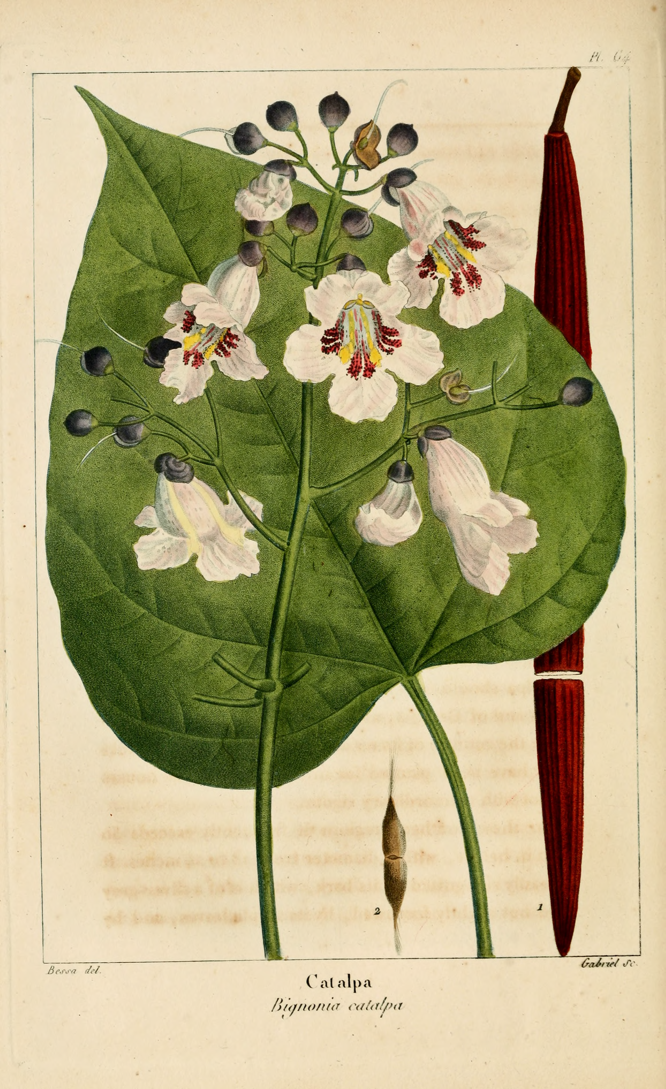 Plate 64 from The North American Sylva: Catalpa bignonioides - southern catalpa. (Original caption: "Catalpa. Bignonia catalpa.")